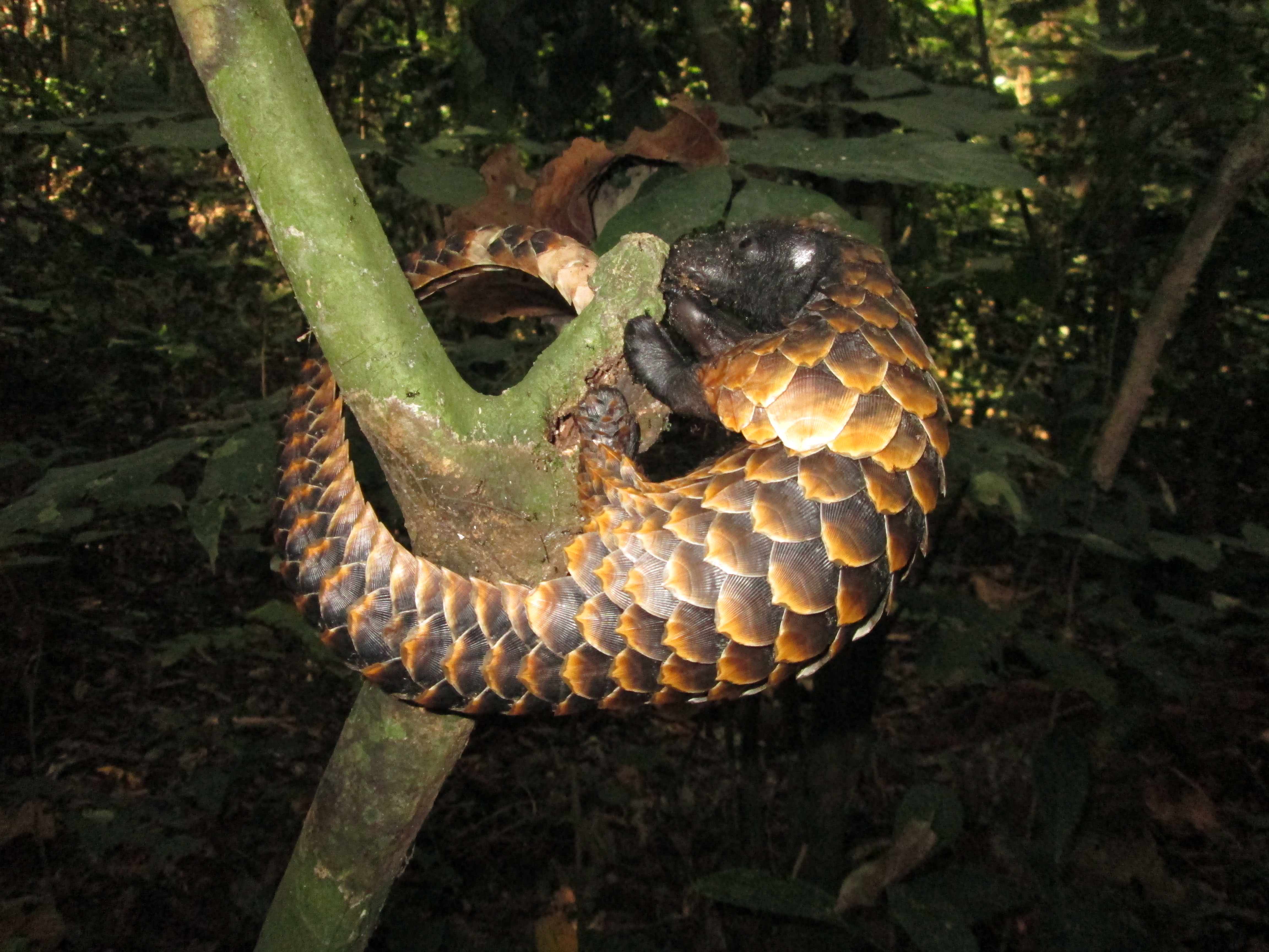 Manis tetradactyla Photo credit to Rod Cassidy / Sangha Lodge The United States is co-sponsoring four separate proposals to increase CITES protections for pangolins from Appendix II to Appendix I